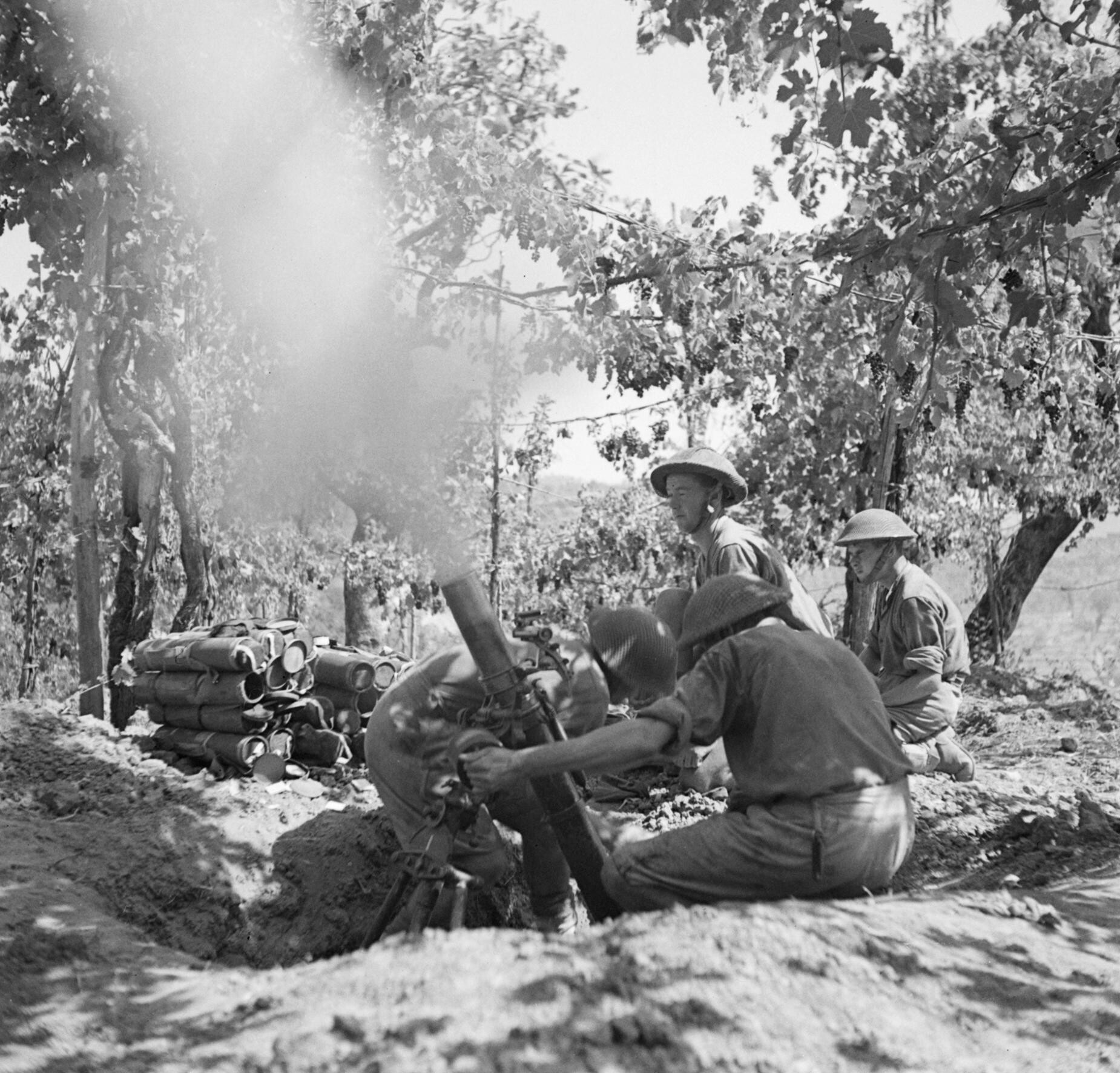 The British Army in Italy 1943 A 3-inch mortar of the 5th Hampshire Regiment in action at Salerno, 15 September 1943.